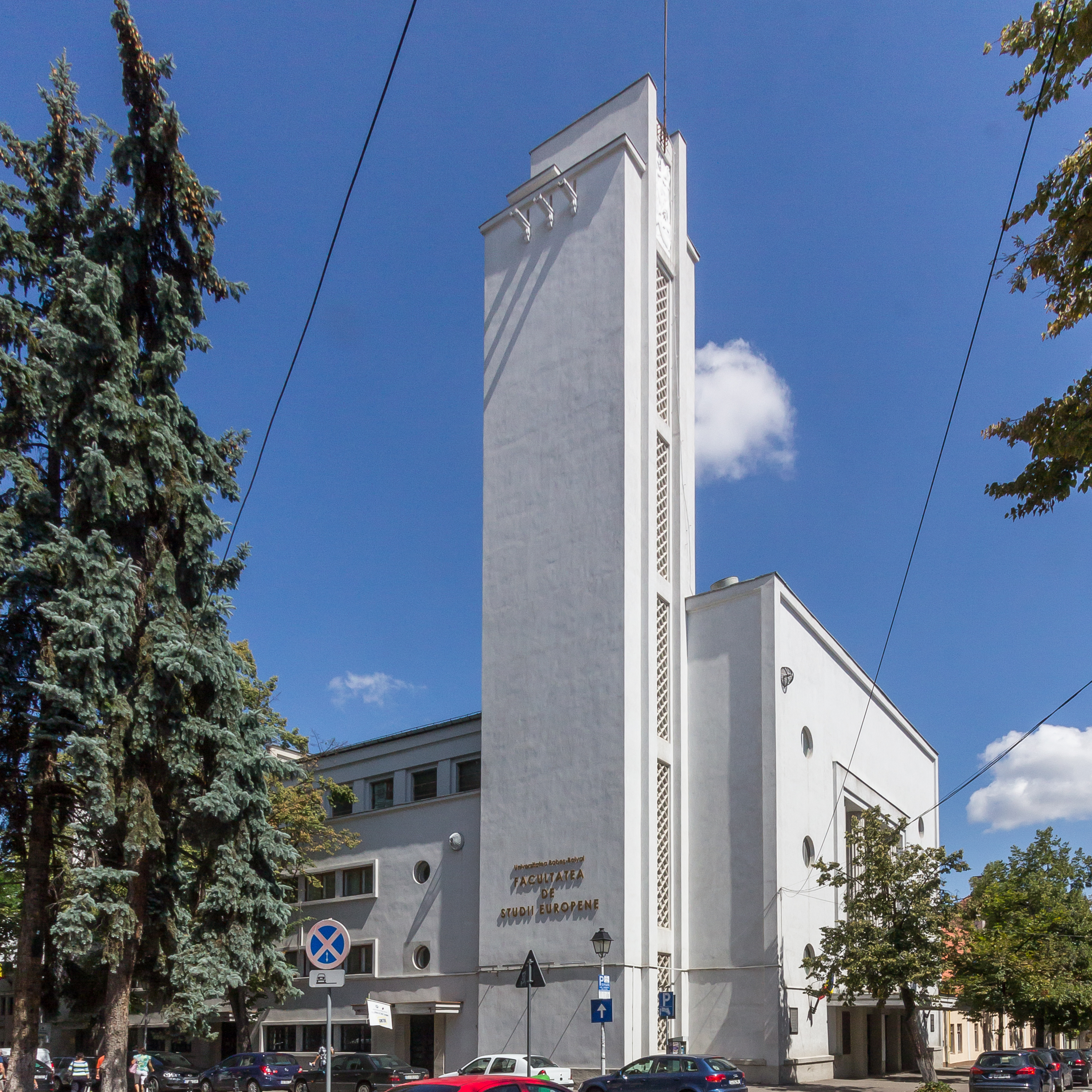 Casa Universitarilor, Cluj-Napoca